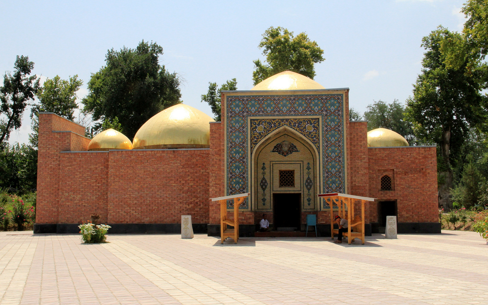 Museum Тоҷикӣ: Осорхонаи шаҳри Кулоб дар Тоҷикистон